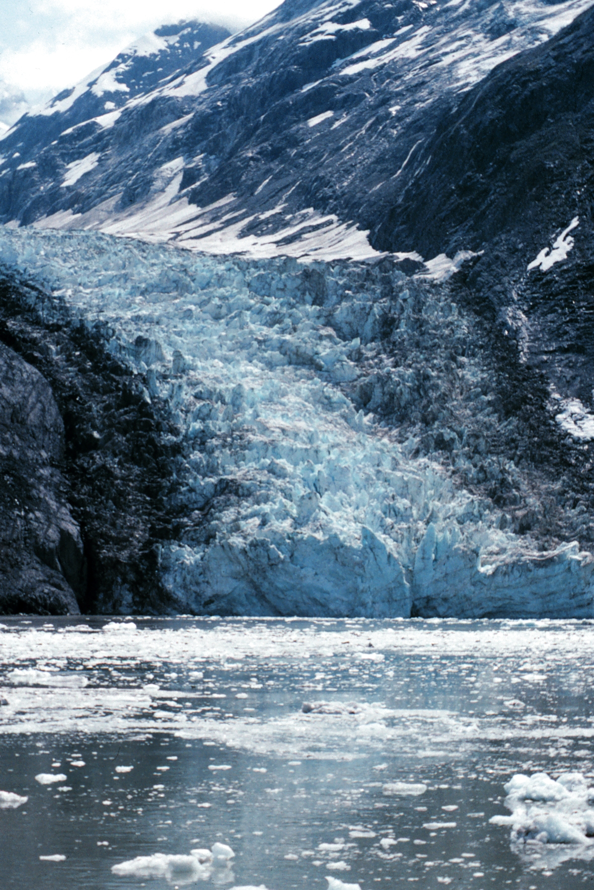 Glacier Bay - Johns Hopkins glacier calving [1]